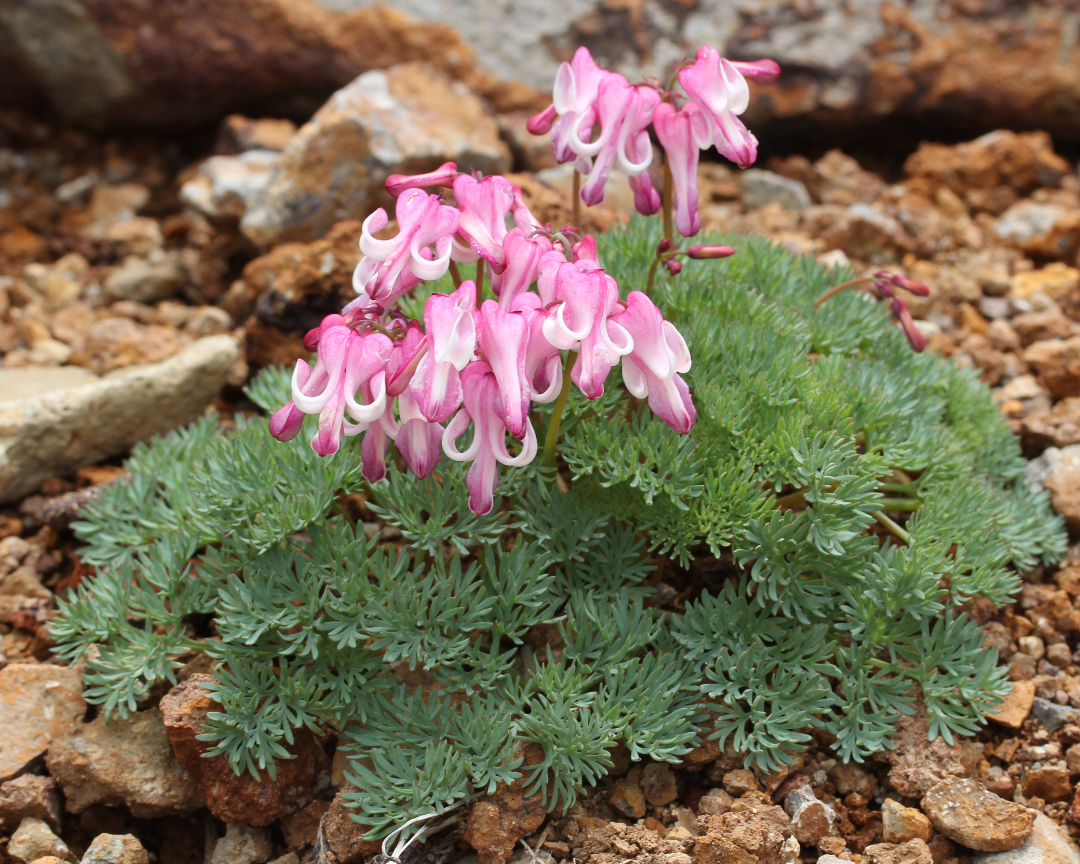 Dicentra peregrina in Mount Norikura, Nagano and Gifu pref., Japan.